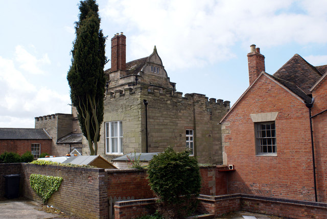 The Marble House This was the home and yard of Francis Smith of Warwick, a master mason operating in the 17/18th century, who helped rebuild Warwick after a major fire and went on to build several country houses in the Midlands. The building is now offices and surrounded by new housing.